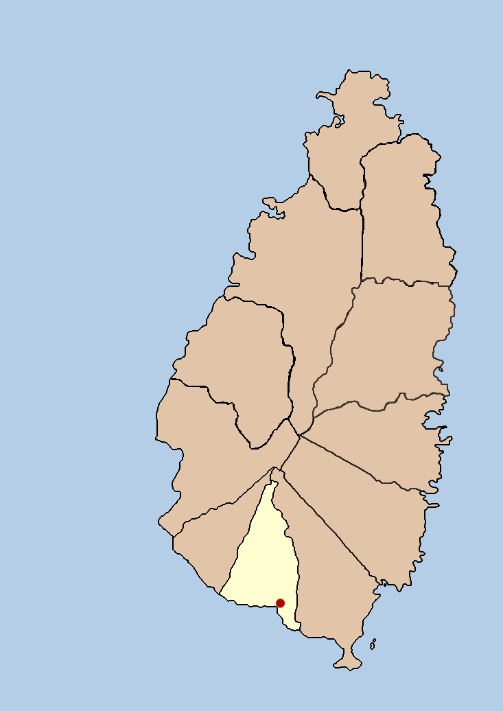 this is a political map showing the quarter of Laborie on the island nation of Santa Lucia. I created it myself by using the GIMP to trace a public domain map that i found at the Perry-Castañeda Library Map Collection.